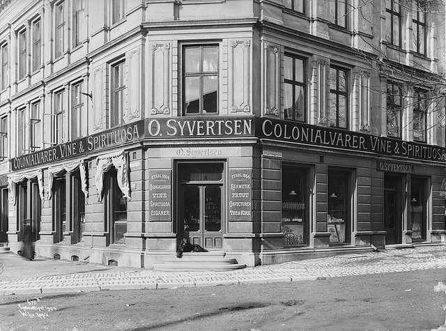 O. Syvertsen Colonialvarer, shop in Oslo.